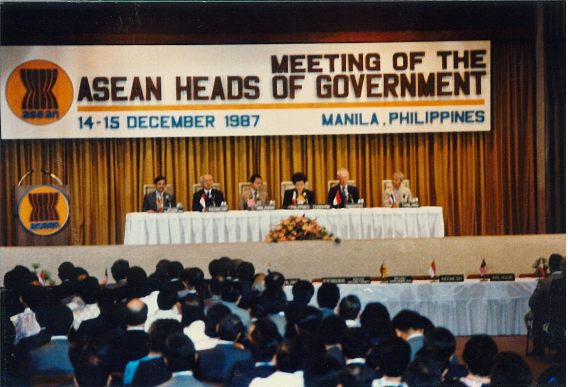 The Philippines, one of ASEAN’s five founding members, hosted the third ASEAN Summit in Manila in 1987. At the time, ASEAN had only six Member States. Since then, the Philippines has hosted two other ASEAN Summits back in 1999 and in 2007. At the 12th ASEAN Summit in Cebu, ASEAN declared the acceleration of the establishment of ASEAN Community by 2015.